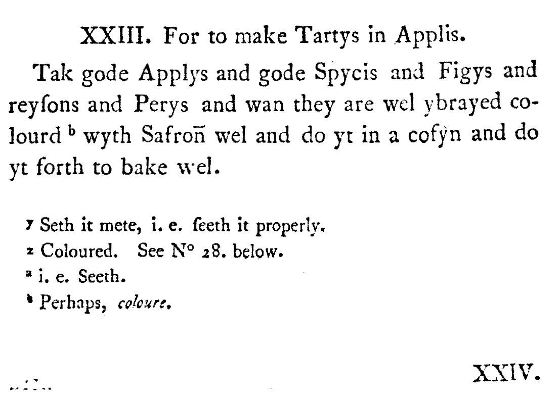 This scan was found on The use of the scan is "fair use", and the original text (the most important thing) is public domain, dating as it does from 1381. Chameleon 13:30, 20 Nov 2004 (UTC)